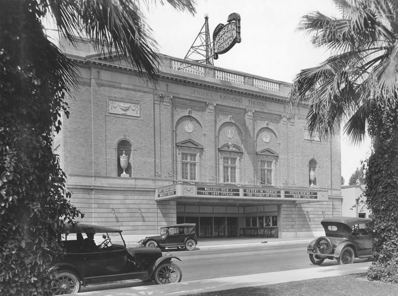 The Raymond Theater in Pasadena soon after its opening.